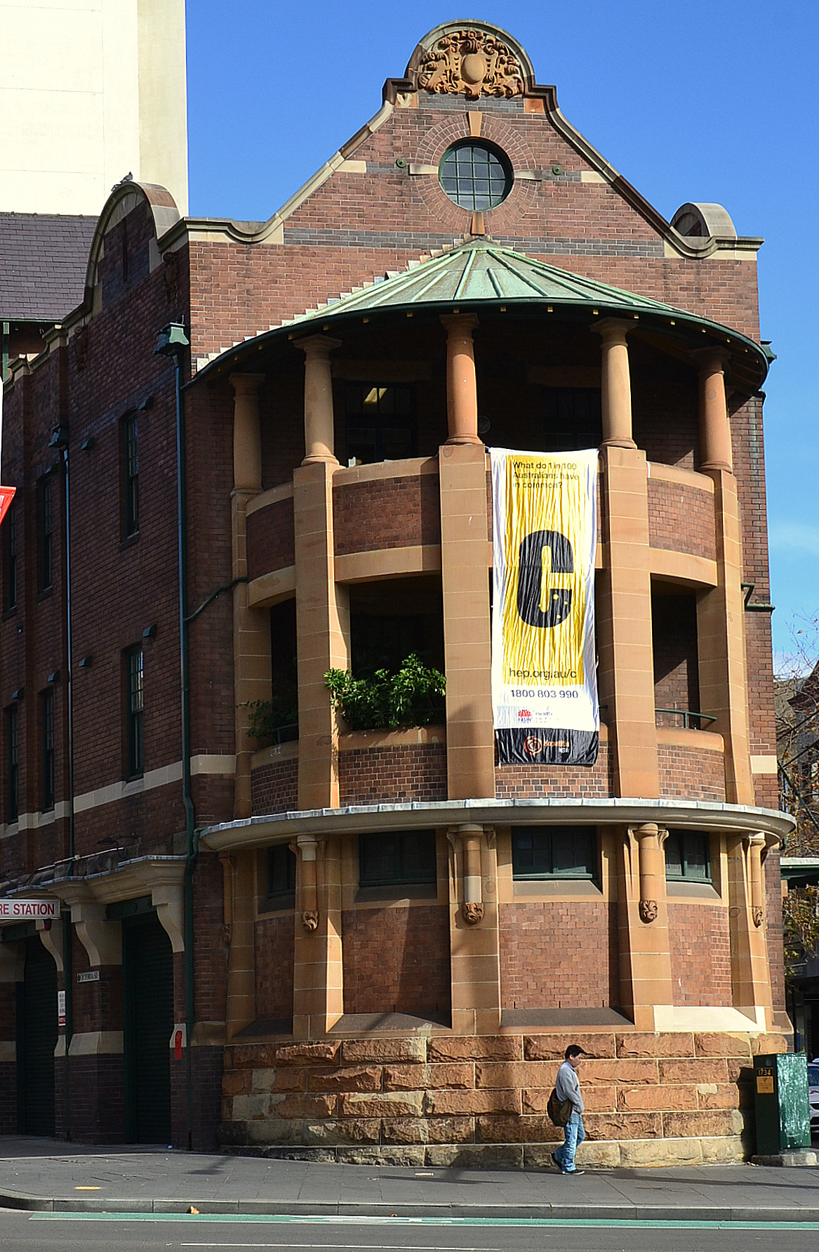 Darlinghurst Fire Station, Sydney